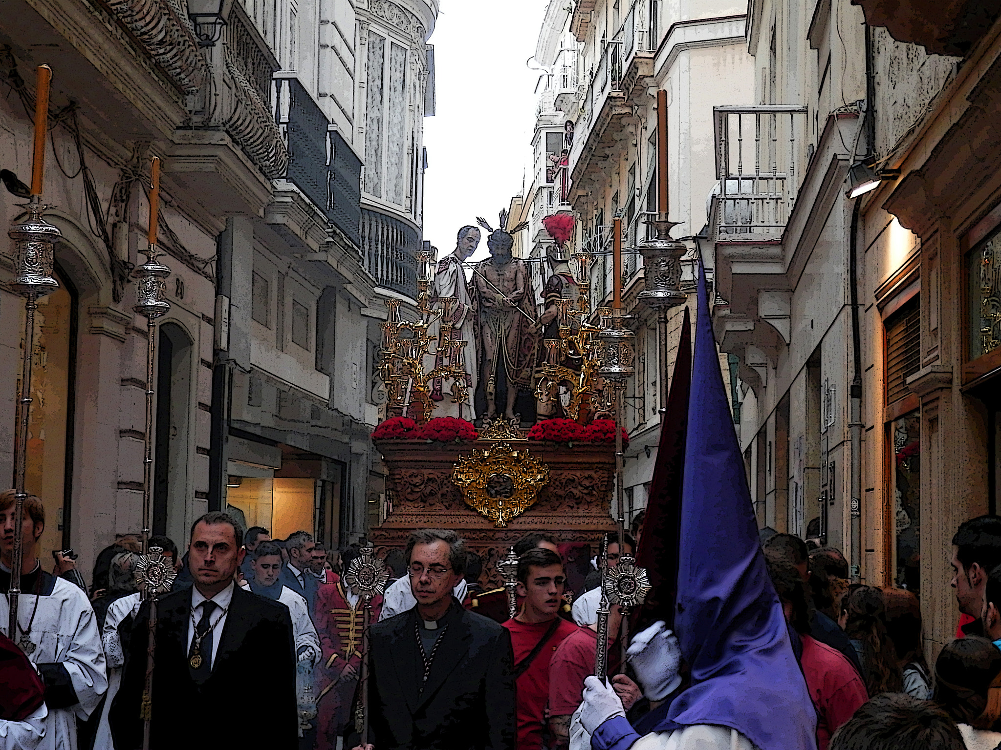 500px provided description: Ecce-Homo in the Holy Week of C?diz, Spain. [#spain ,#christ ,#cadiz ,#semana santa ,#holy week ,#jesuchrist ,#c?diz]